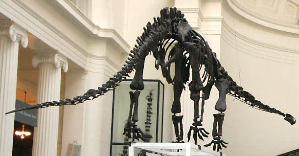 Mamenchisaurus hochuanensis, Field Museum, Chicago, Illinois.